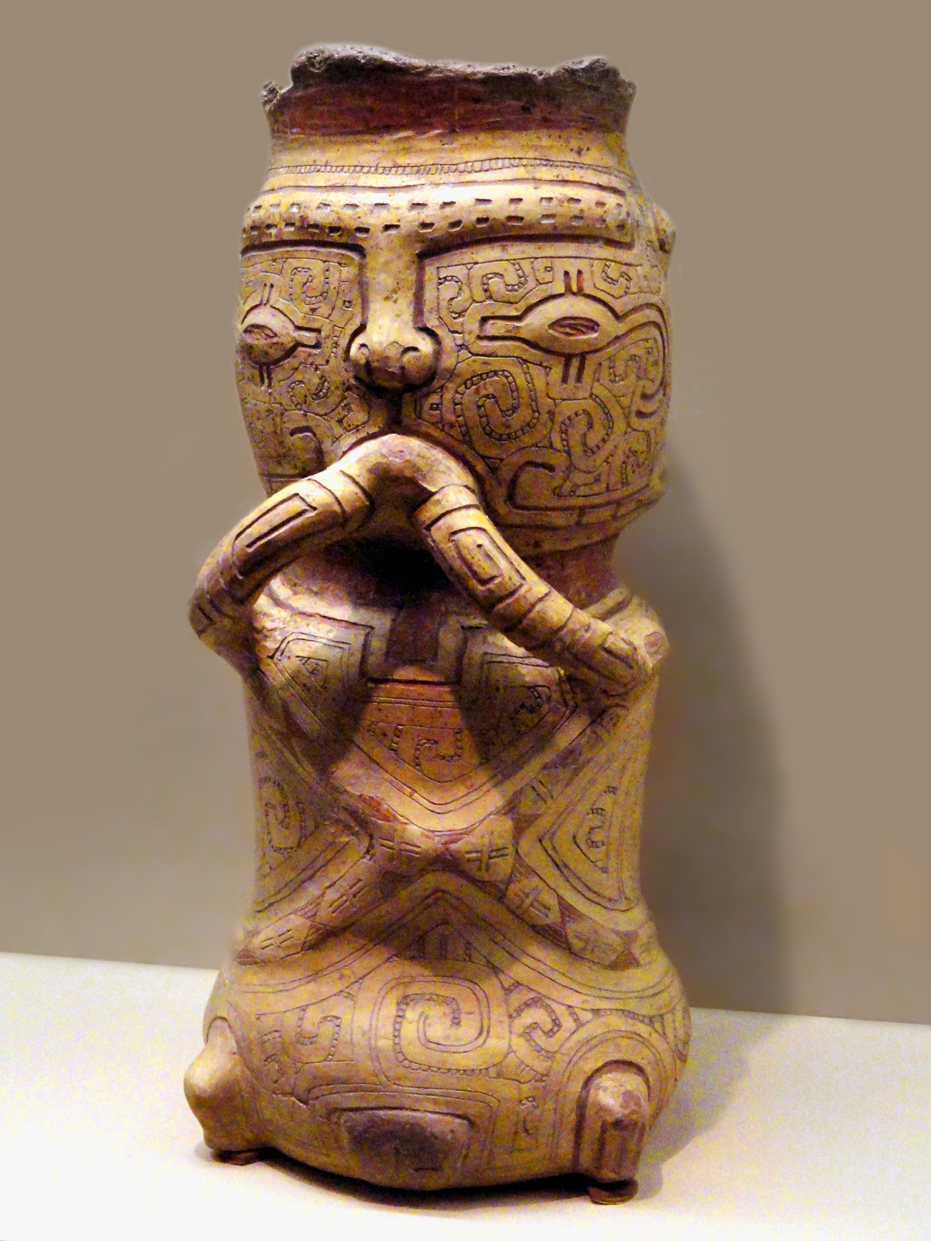 Exhibit in the South American collection of the American Museum of Natural History, Manhattan, New York City, New York, USA.